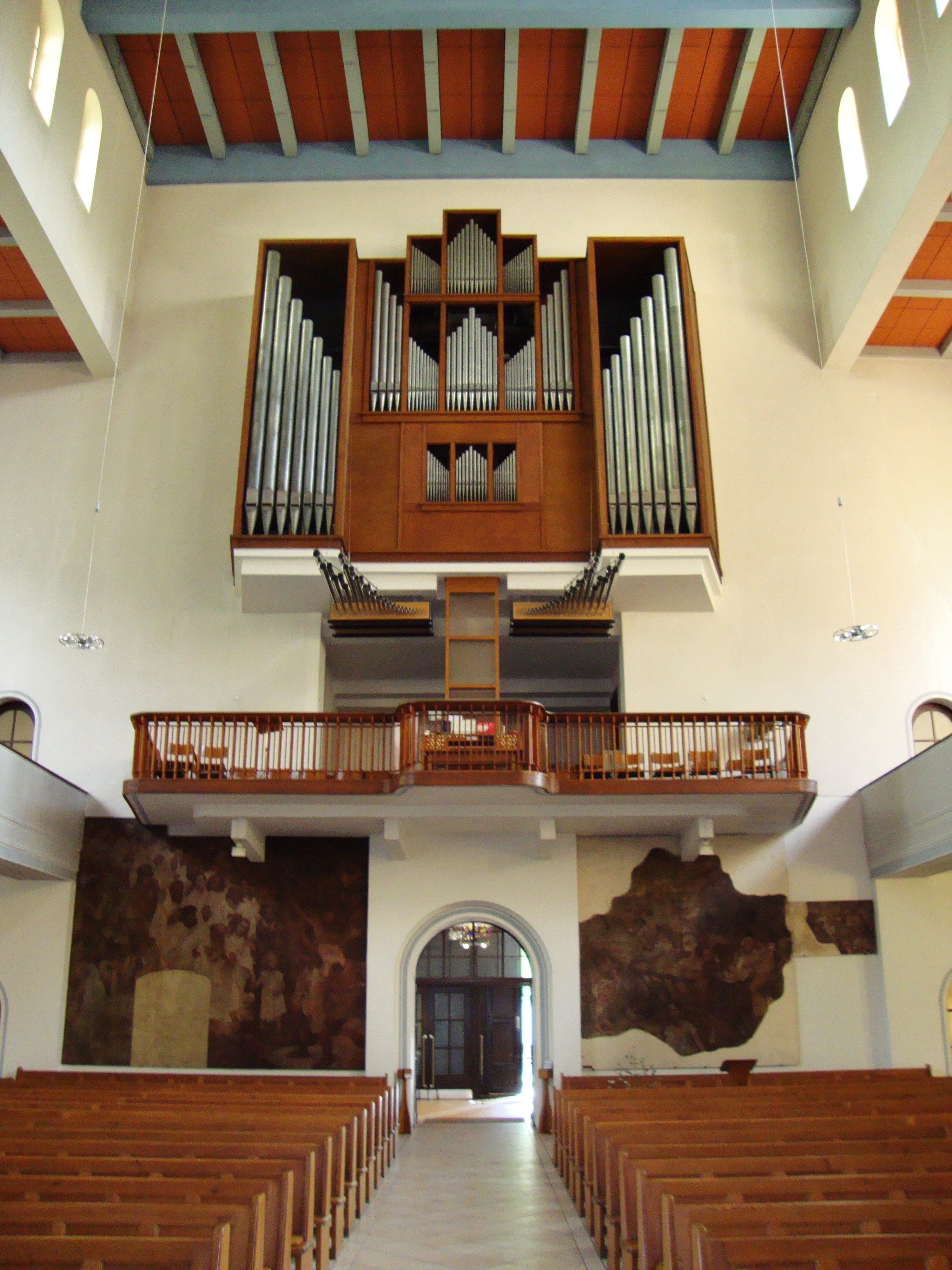 Dusseldorf-Unterbilk, Church of Peace. Organ.